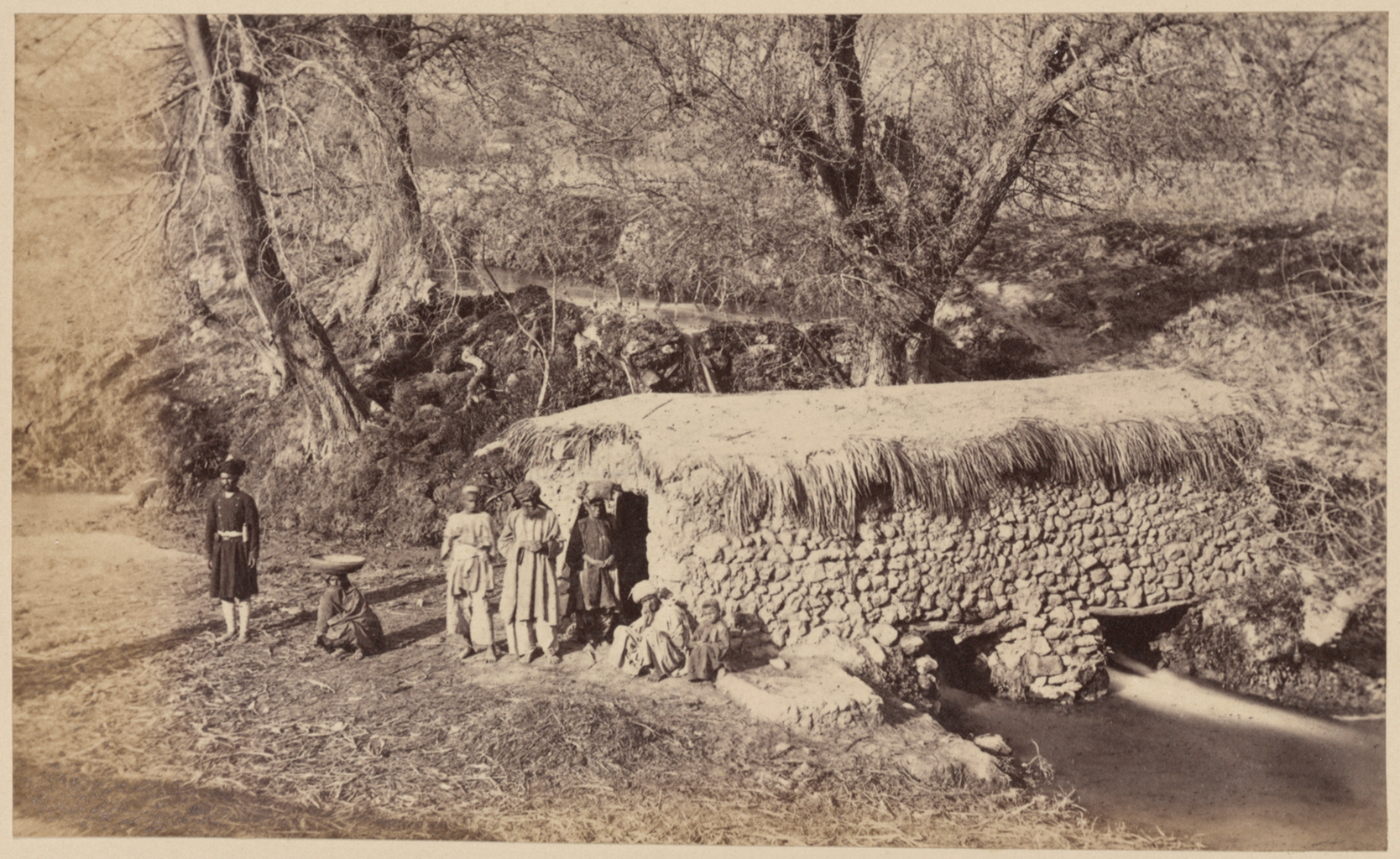 This photograph of an Afghan water mill is from an album of rare historical photographs depicting people and places associated with the Second Anglo-Afghan War. The mill, rectangular shaped with a thatched roof, was probably operated on a part-time basis by the family pictured in the photograph. The water mill is a traditional design with a small horizontal mill-house built of stone, or perhaps mud bricks. The men look directly at the camera, but a woman wearing a chador partially screens her face for modesty. The Second Anglo-Afghan War began in November 1878 when Great Britain, fearful of what it saw as growing Russian influence in Afghanistan, invaded the country from British India. The first phase of the war ended in May 1879 with the Treaty of Gandamak, which permitted the Afghans to maintain internal sovereignty but forced them to cede control over their foreign policy to the British. Fighting resumed in September 1879, after an anti-British uprising in Kabul, and finally concluded in September 1880 with the decisive Battle of Kandahar. The album includes portraits of British and Afghan leaders and military personnel, portraits of ordinary Afghan people, and depictions of British military camps and activities, structures, landscapes, and cities and towns. The sites shown are all located within the borders of present-day Afghanistan or Pakistan (a part of British India at the time). About a third of the photographs were taken by John Burke (circa 1843–1900), another third by Sir Benjamin Simpson (1831–1923), and the remainder by several other photographers. Some of the photographs are unattributed. The album possibly was compiled by a member of the British Indian government, but this has not been confirmed. How it came to the Library of Congress is not known. Afghan Wars; Group portraits; Portrait photographs; Rivers; Water mills